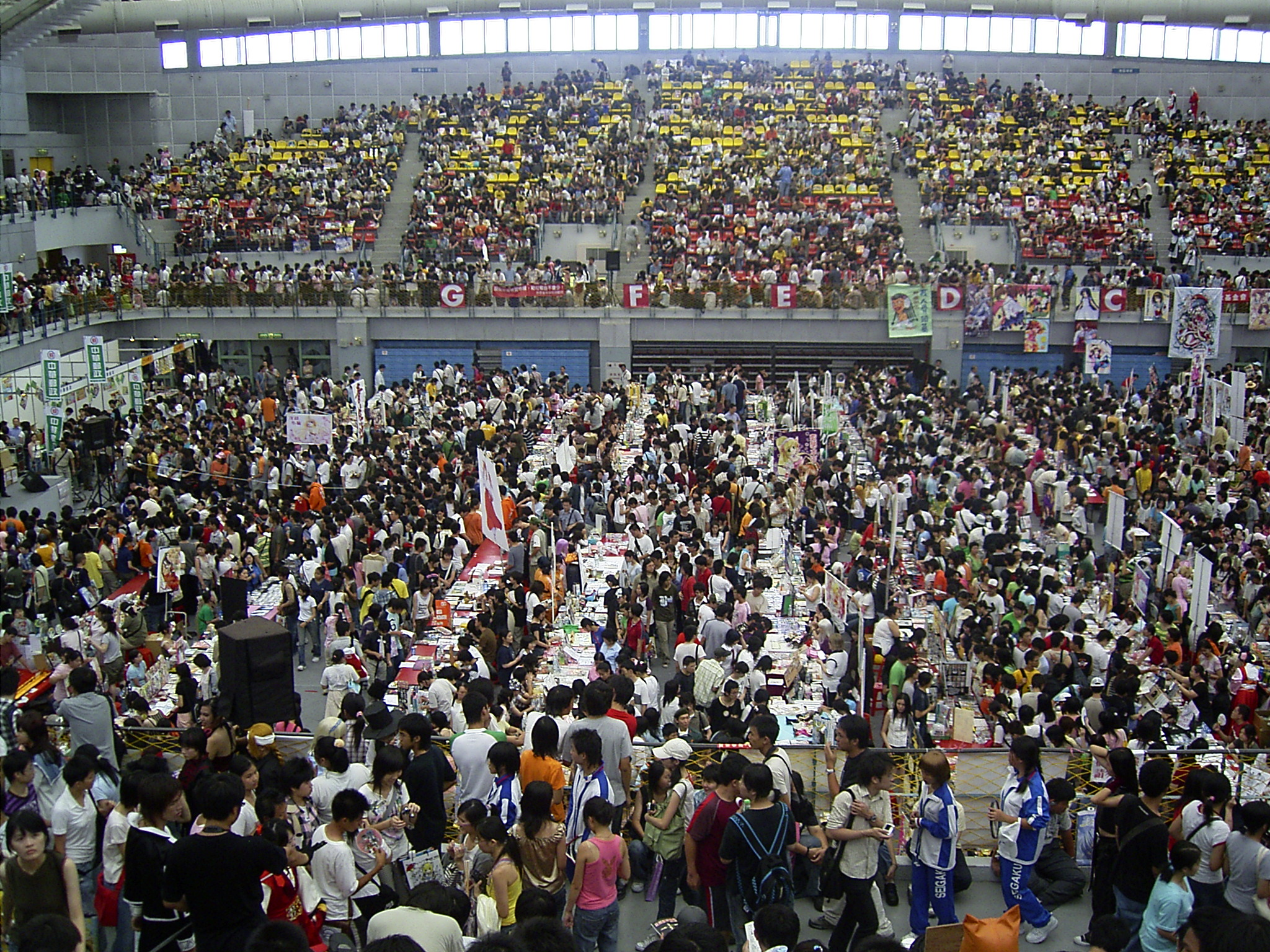 Main Court of NTU Sports Center, taken on July 30, 2006, when Fancy Frontier 8 was being held there.